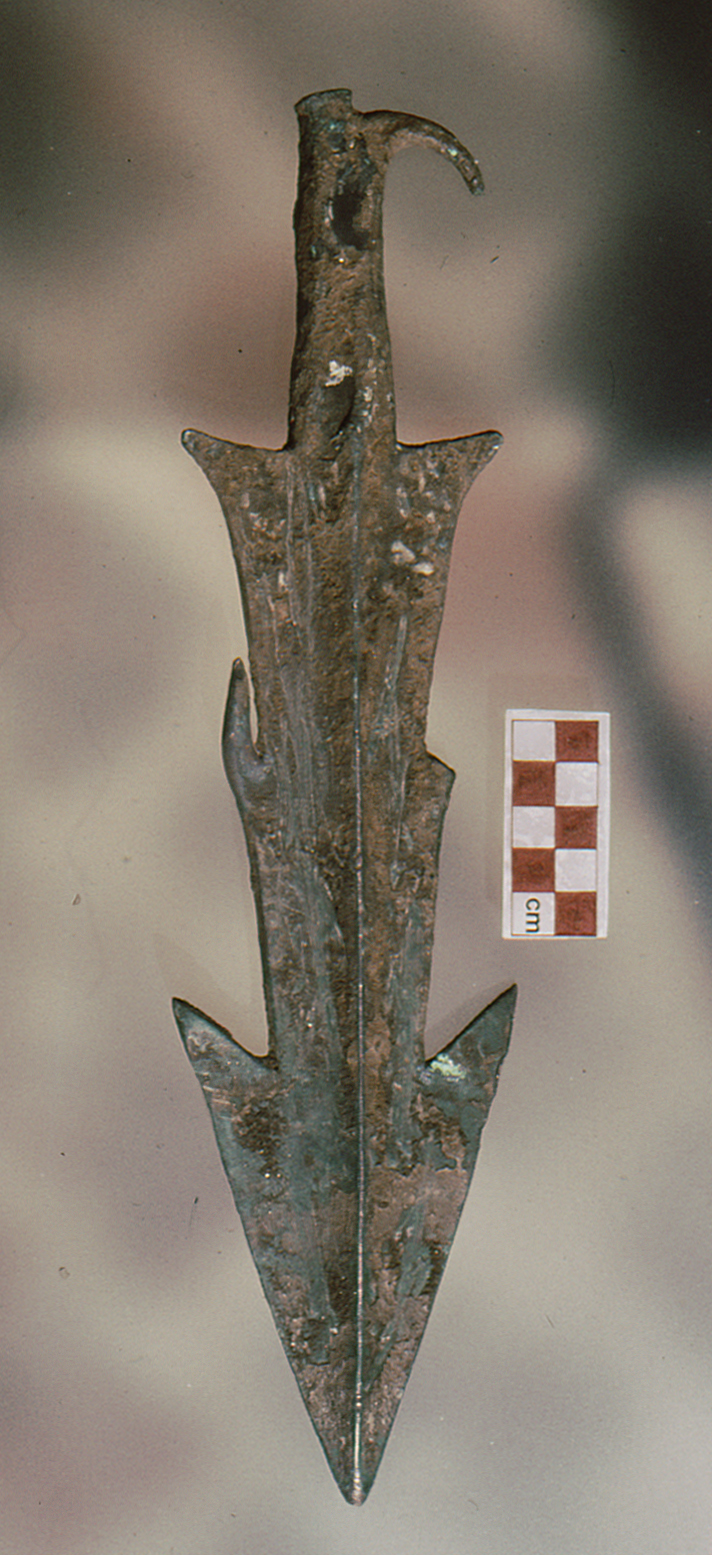 weapon attributable to the Indian Cu hoard complex, from Rewari